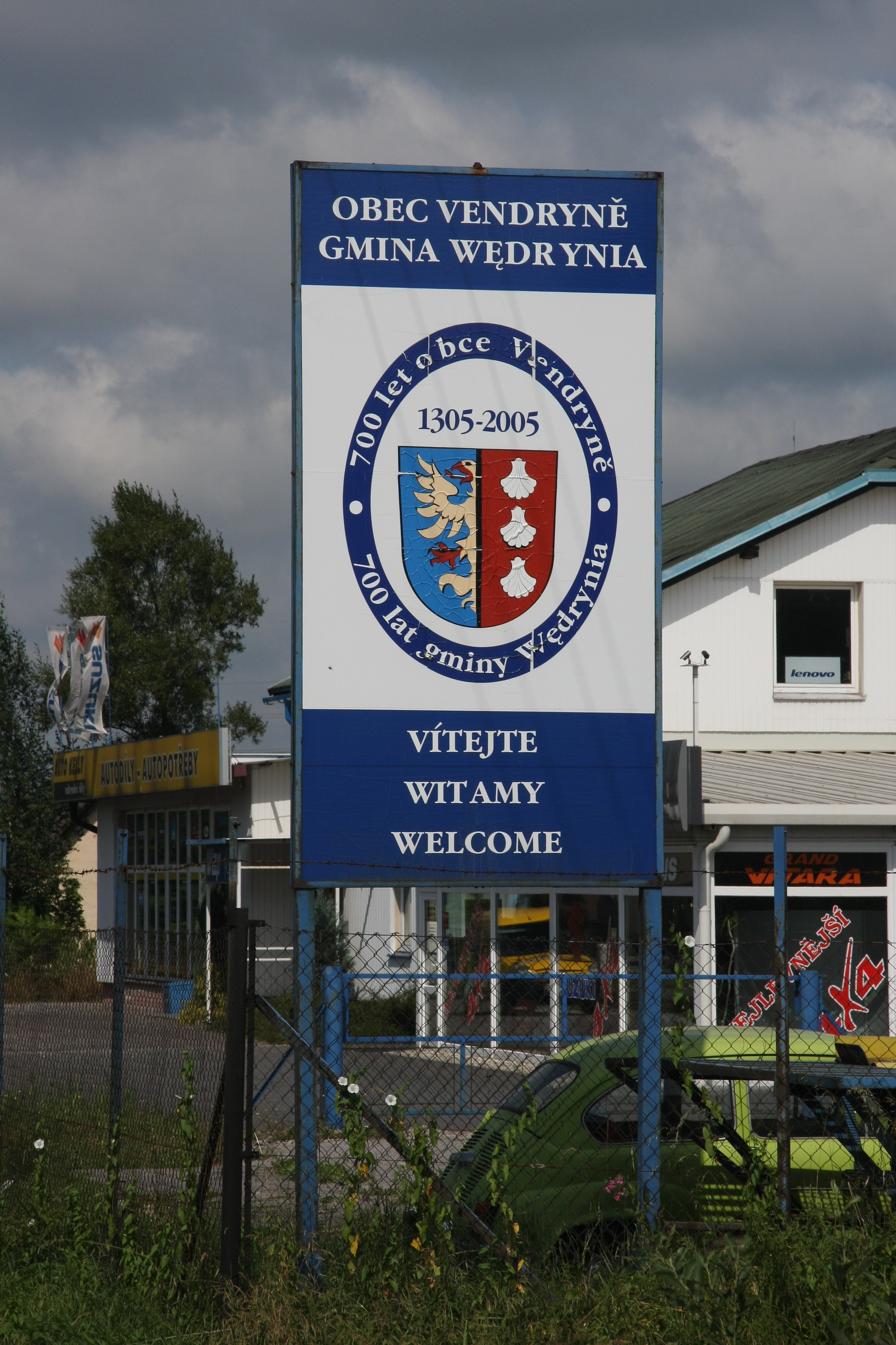 Chech and Polish names in Vendryně/Wędrynia Commune welcome-table